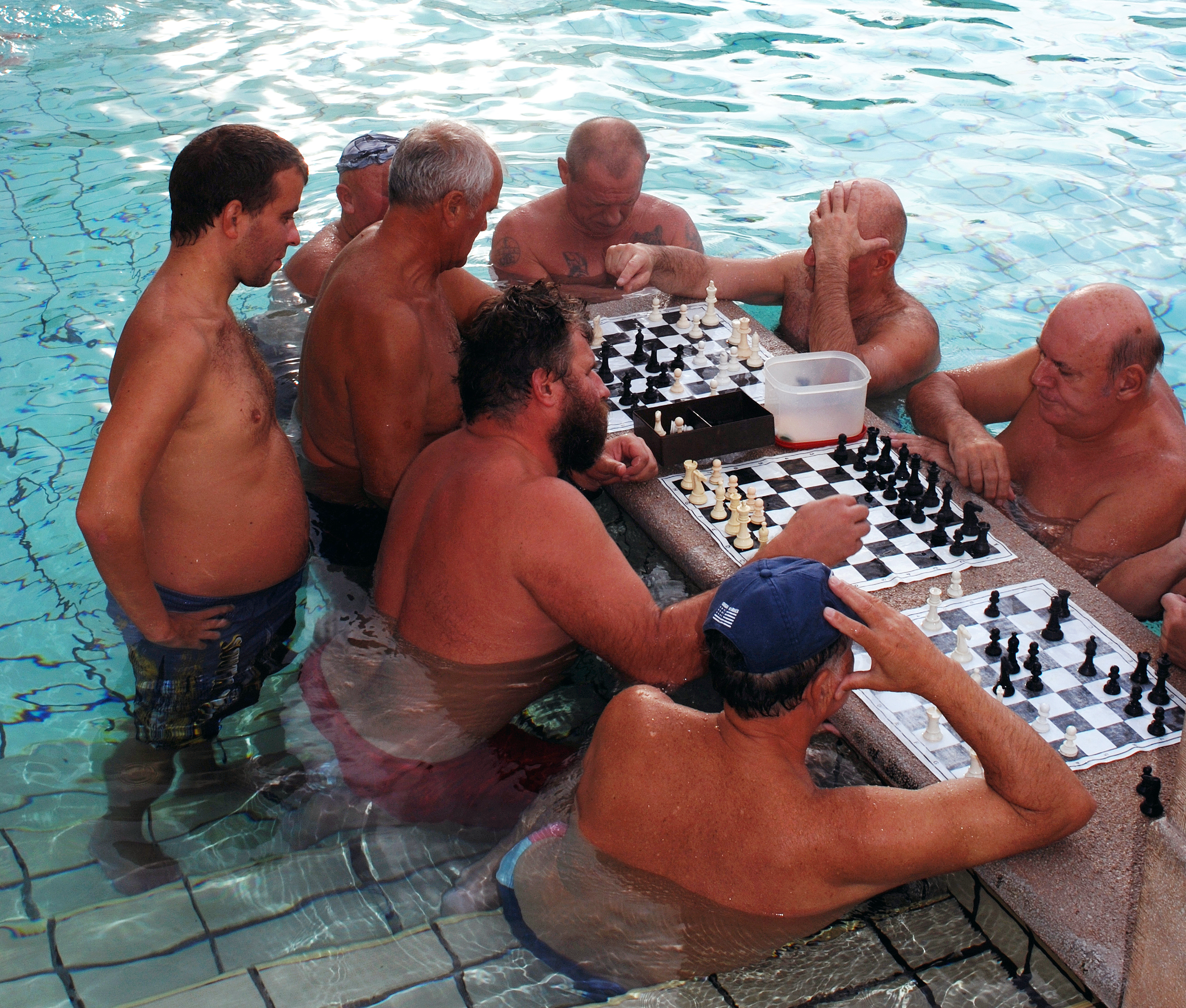 Chess players in one of pools of Budapest thermal spa Széchenyi Gyógyfürdő. Outside pool.